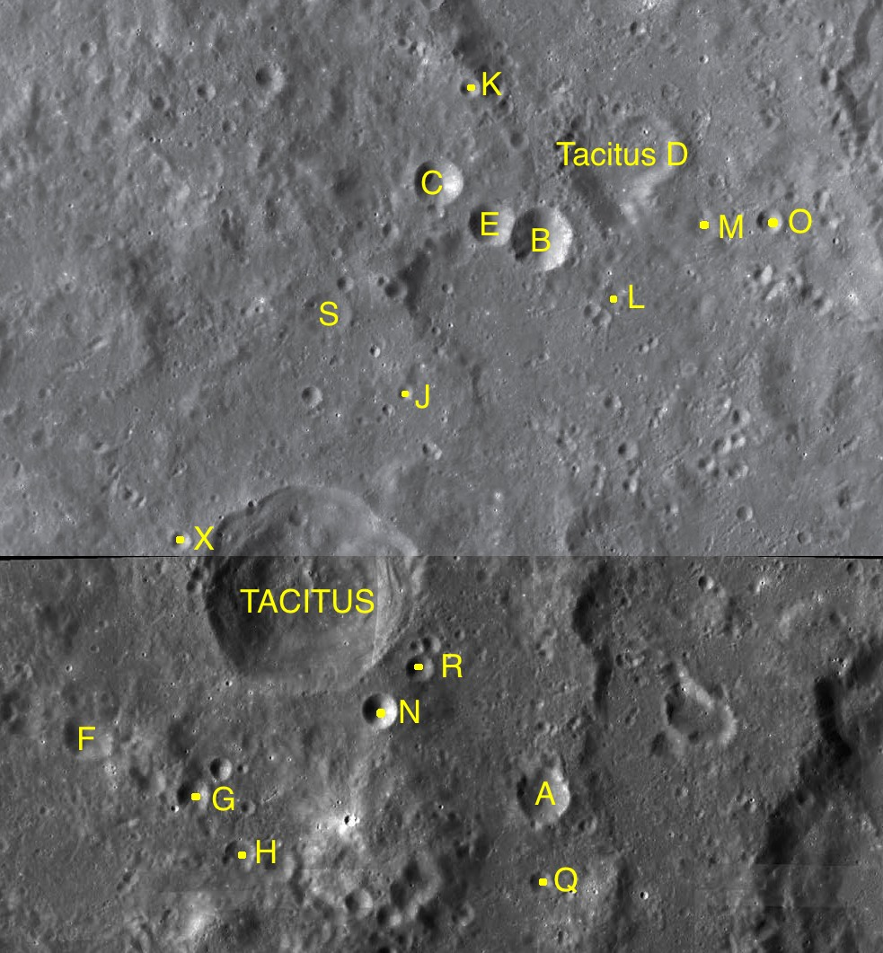 Parts of the charts LAC-78, LAC-96 used for the presentation.